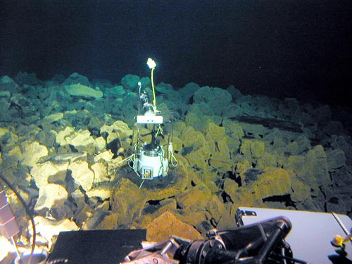 Current meter with attached turbidity sensor (MAPR) deployed in the SW breach of the volcanic rim.